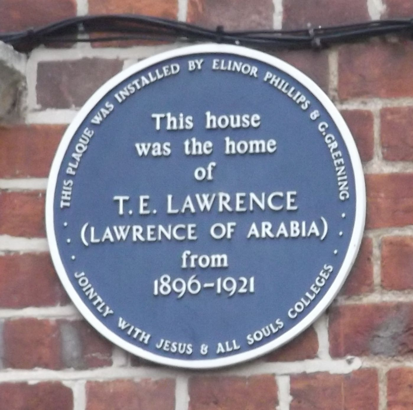 Blue plaque on the former home of T. E. Lawrence in Polstead Road, North Oxford, England.